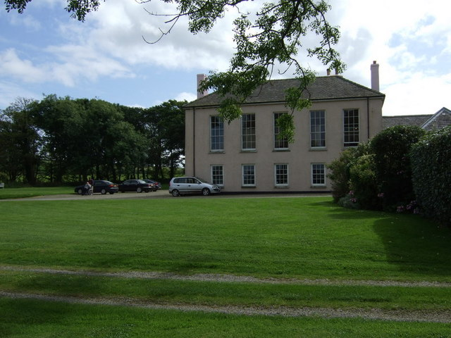 Tregwynt, north elevation The long windows of the C18 ballroom, with basement beneath, where the local gentry were enjoying were enjoying an evening's entertainment when the news of the nearby French invasion broke, February 22n, 1797.